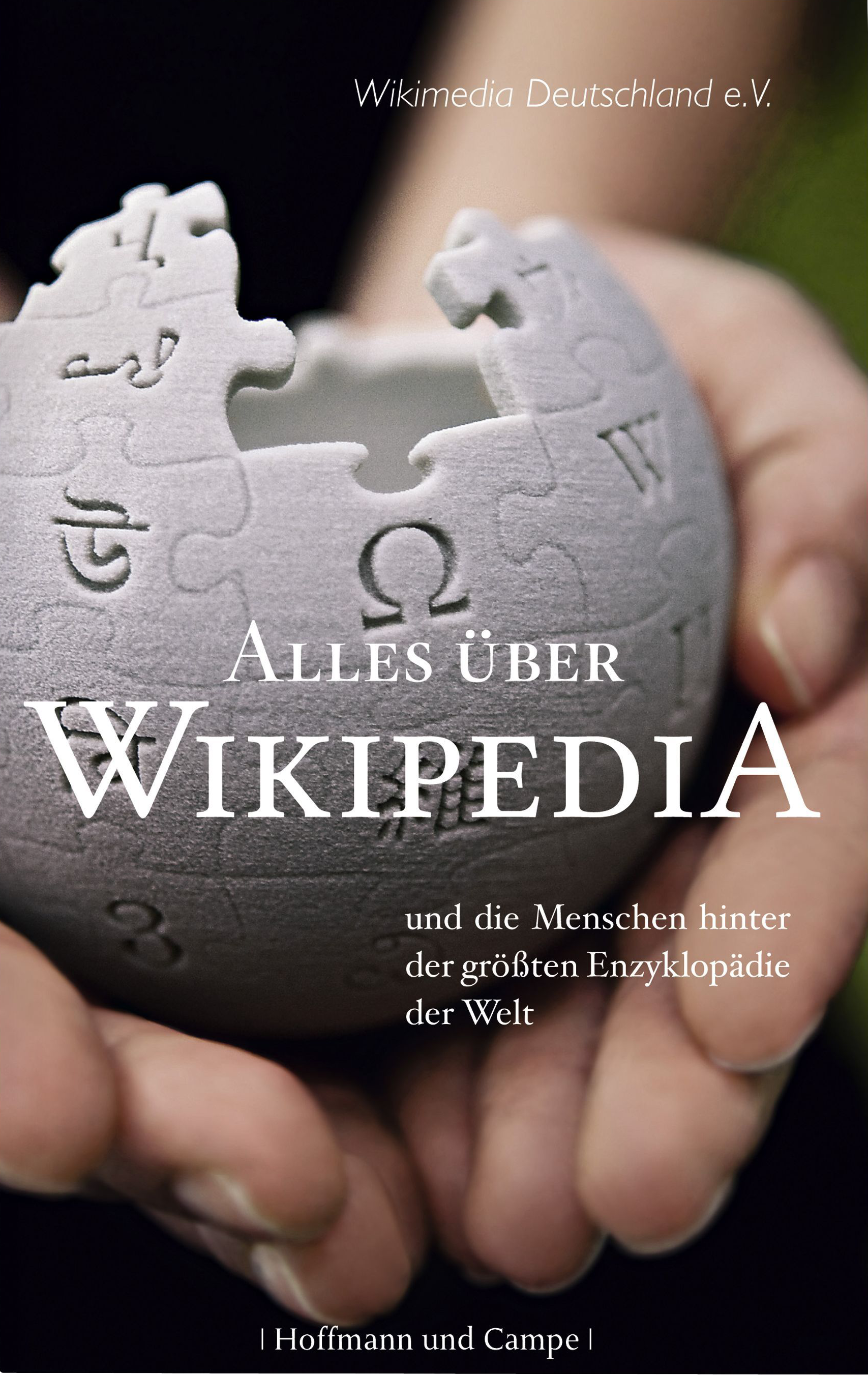 Cover of the German language book on Wikipedia published by Wikimedia Deutschland